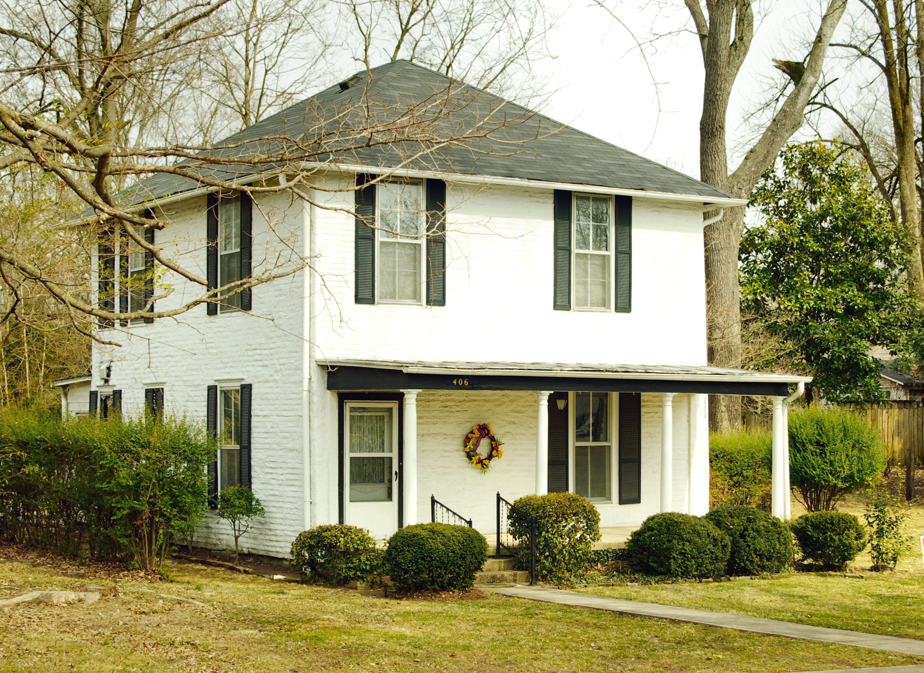 The Wilkins-Davis House in Tullahoma, Tennessee, United States. This house is a contributing property in the North Atlantic Street Historic District.